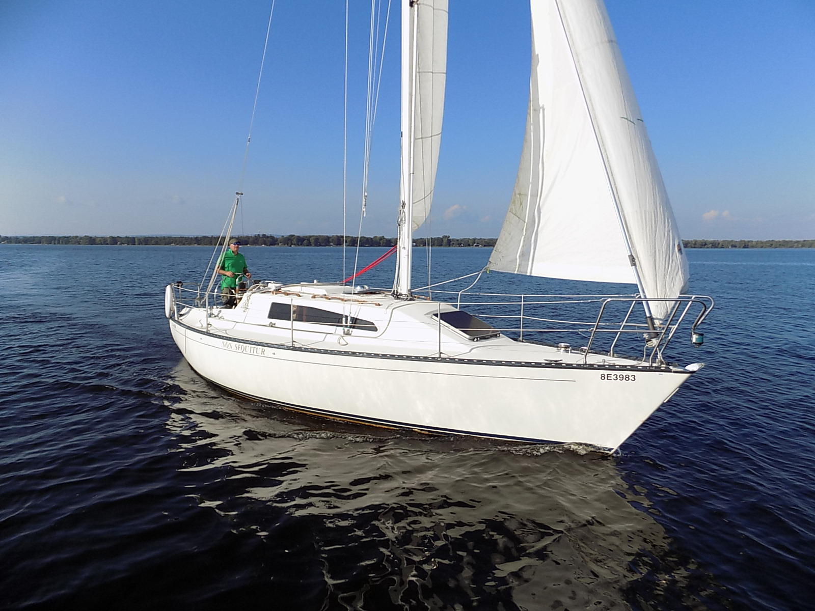 A Aloha 30 sailboat named Non Sequitur.